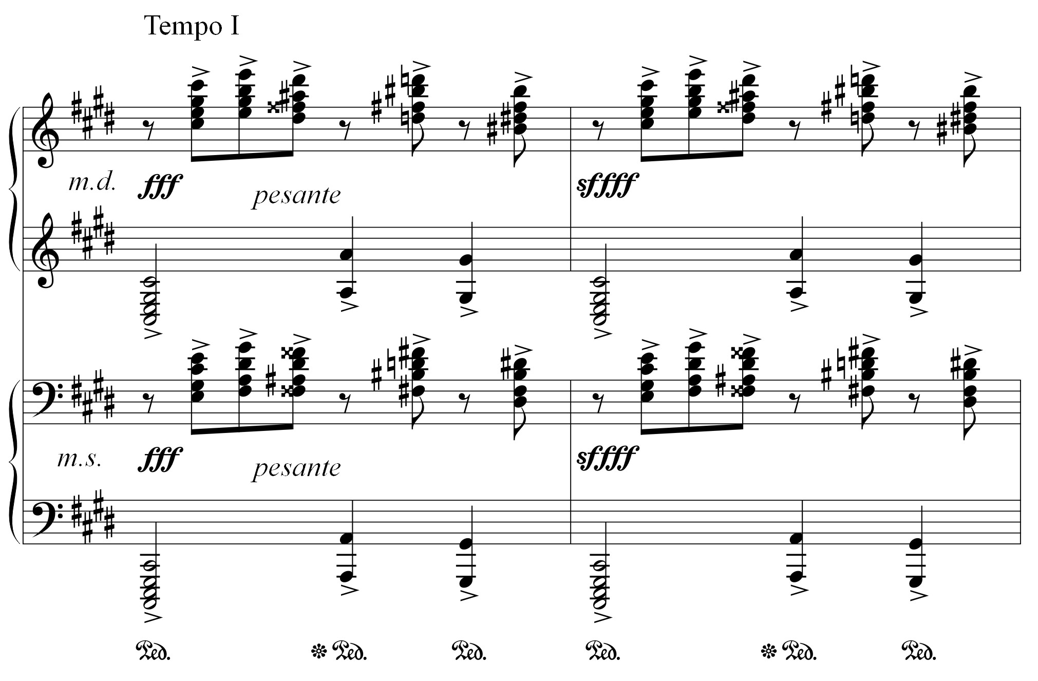 Rachmaninoff's Prelude in C-sharp minor, Op. 3, No. 2; the recapitulation of the theme, in four staves